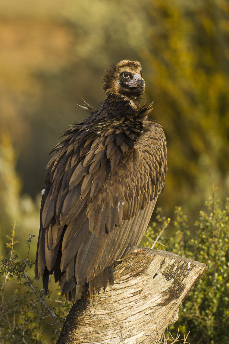 Aegypius monachus, Catalan Pyrenees, Spain S4E7659